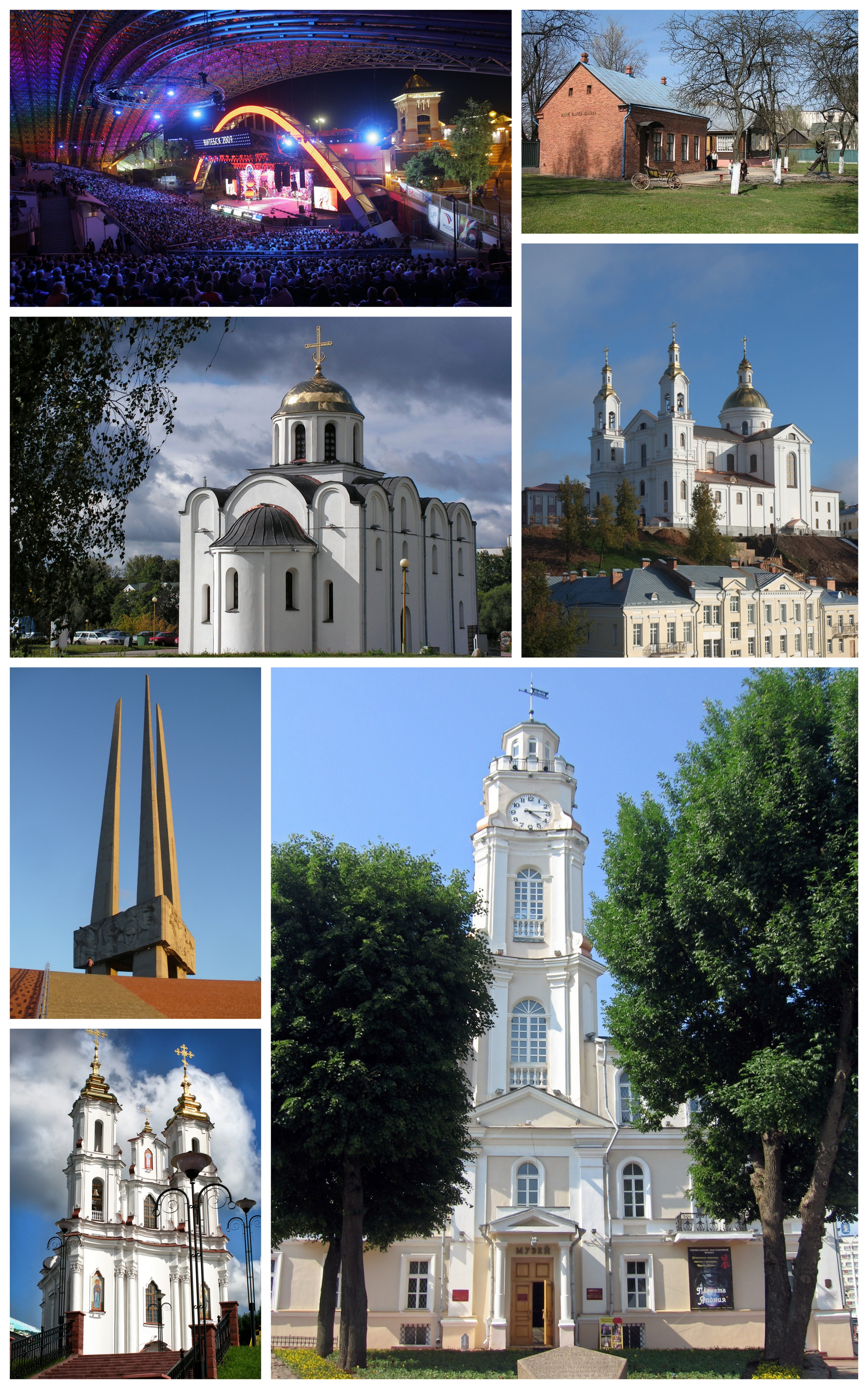 Collage of Viciebsk